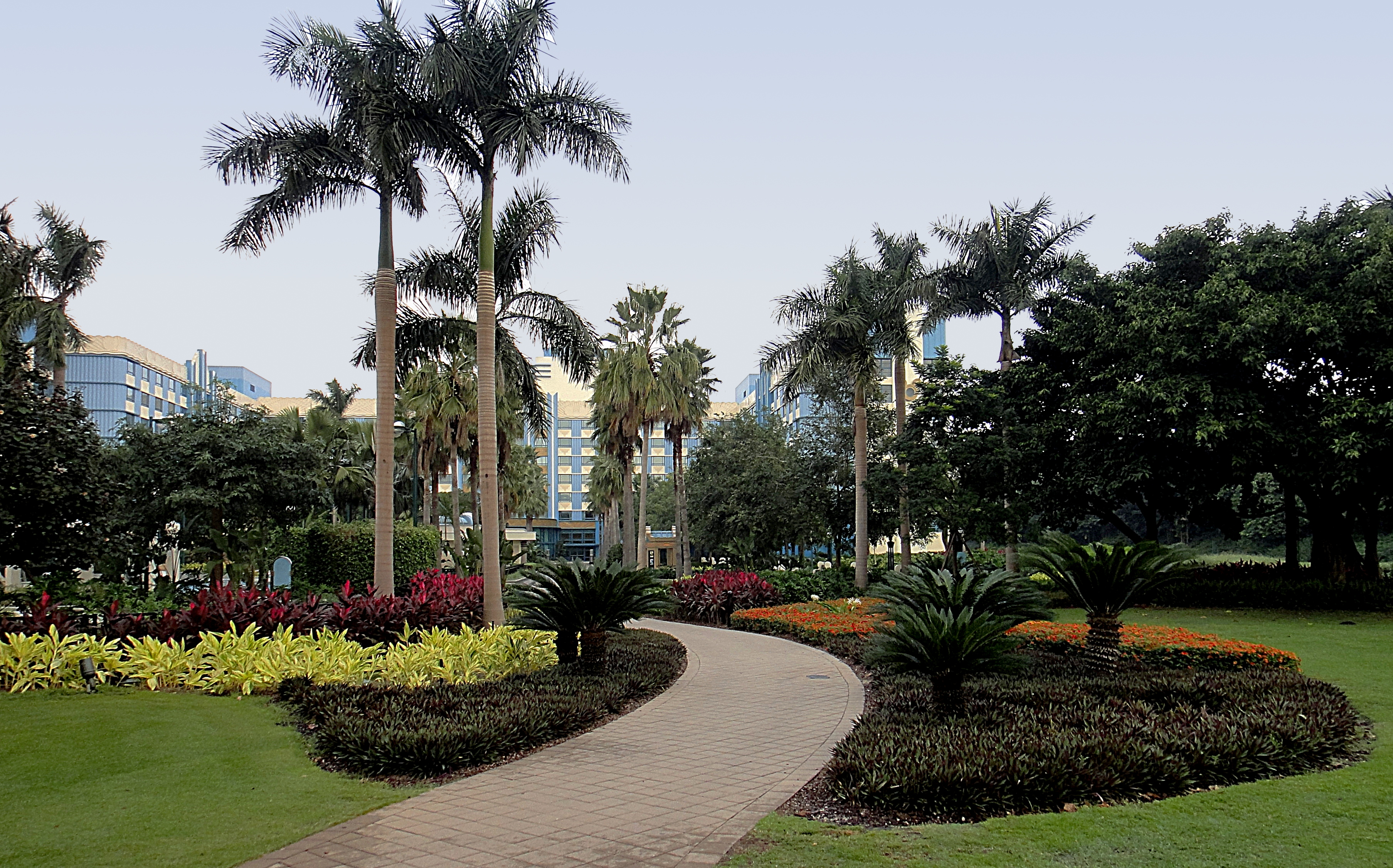 A view of Hong Kong Disneyland Hollywood hotel park.